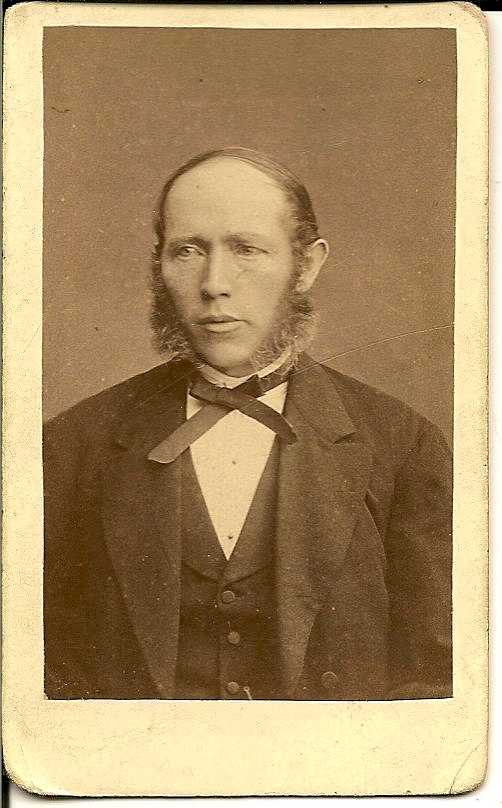 Swedish politician from late nineteenth century